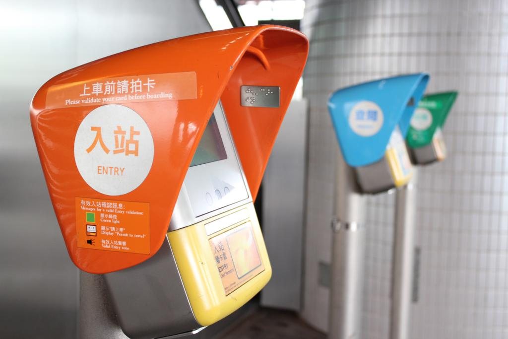 mtr lightrail octopus card validators